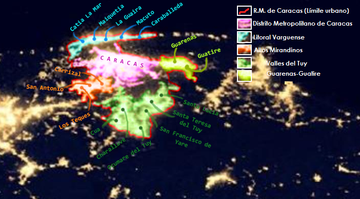 Nocturnal image acquired by the Suomi NPP satellite from the Metropolitan Region of Caracas and its conurbations.